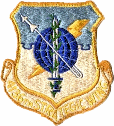 4136th Strategic Wing emblem. A copy of this emblem was downloaded from for use in my book “The Genealogy of the STRATEGIC AIR COMMAND” with the webmasters’ approval.